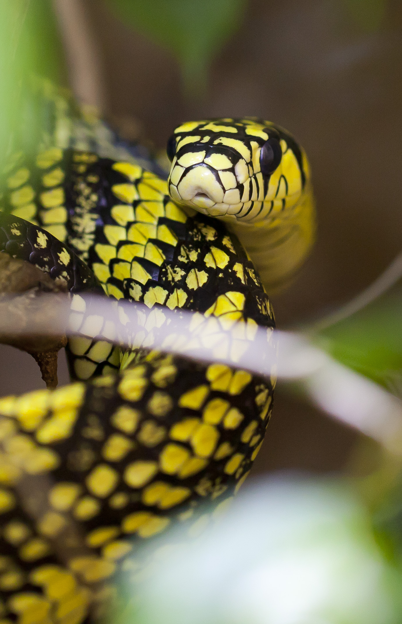 Chicken snake (Spilotes pullatus), Tierpark Hellabrunn, Munich, Germany